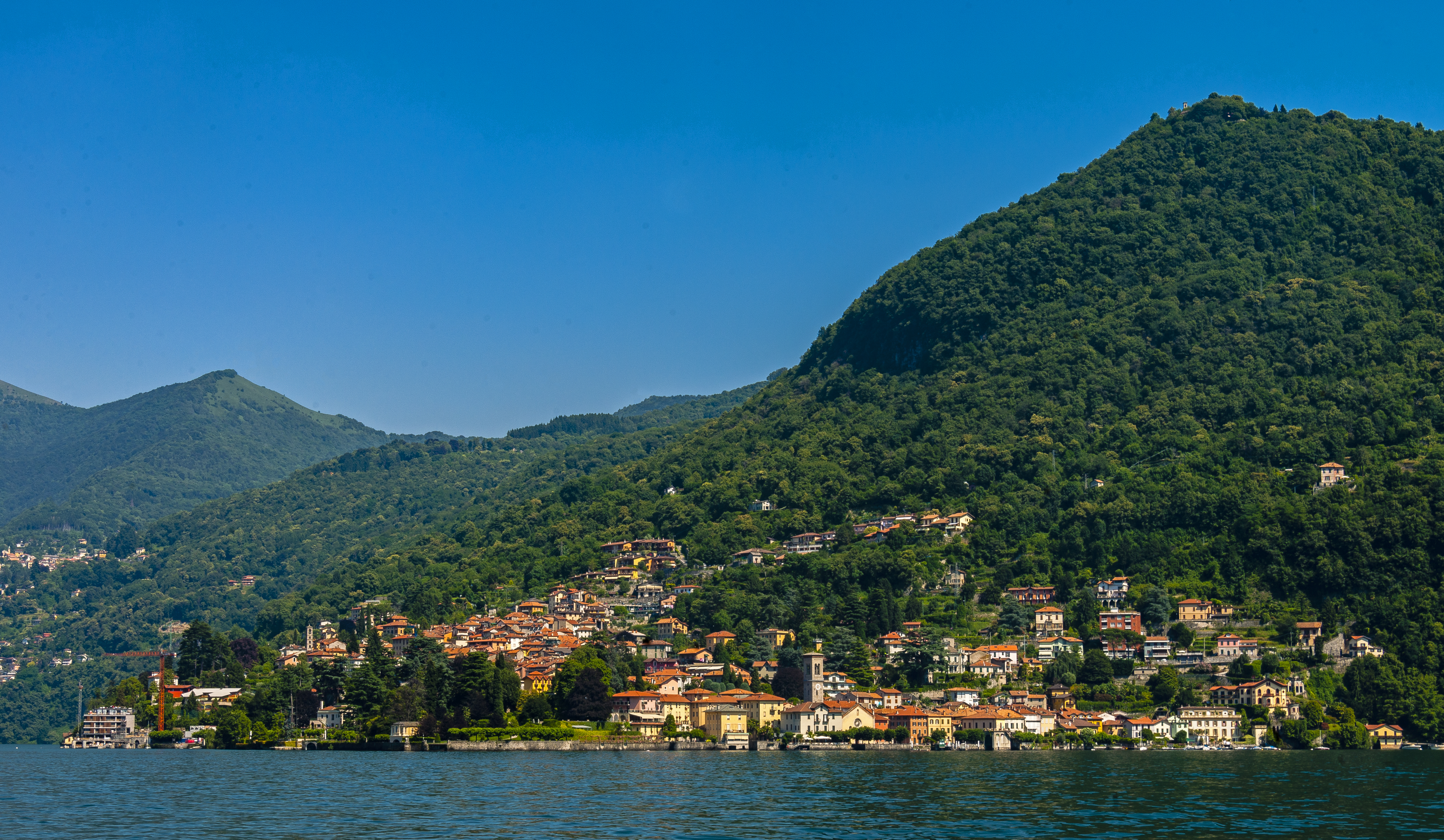 Torno, seen from the ferry near Moltrasio